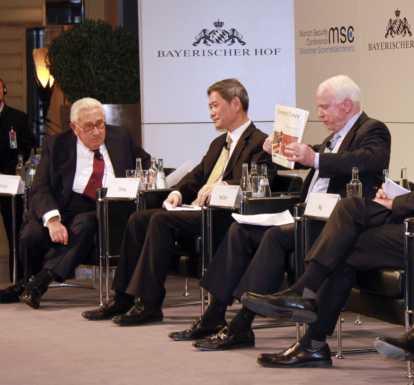 48th Munich Security Conference 2012: From ri: John McCain, Senator, USA, introduces his speech with the cover of the Security Times. Zhijun Zhang Vice minister of Foreign Affairs, China, and Dr. Henry A. Kissinger, Chairman Kissinger Associates, USA, are paying attention to his speech.